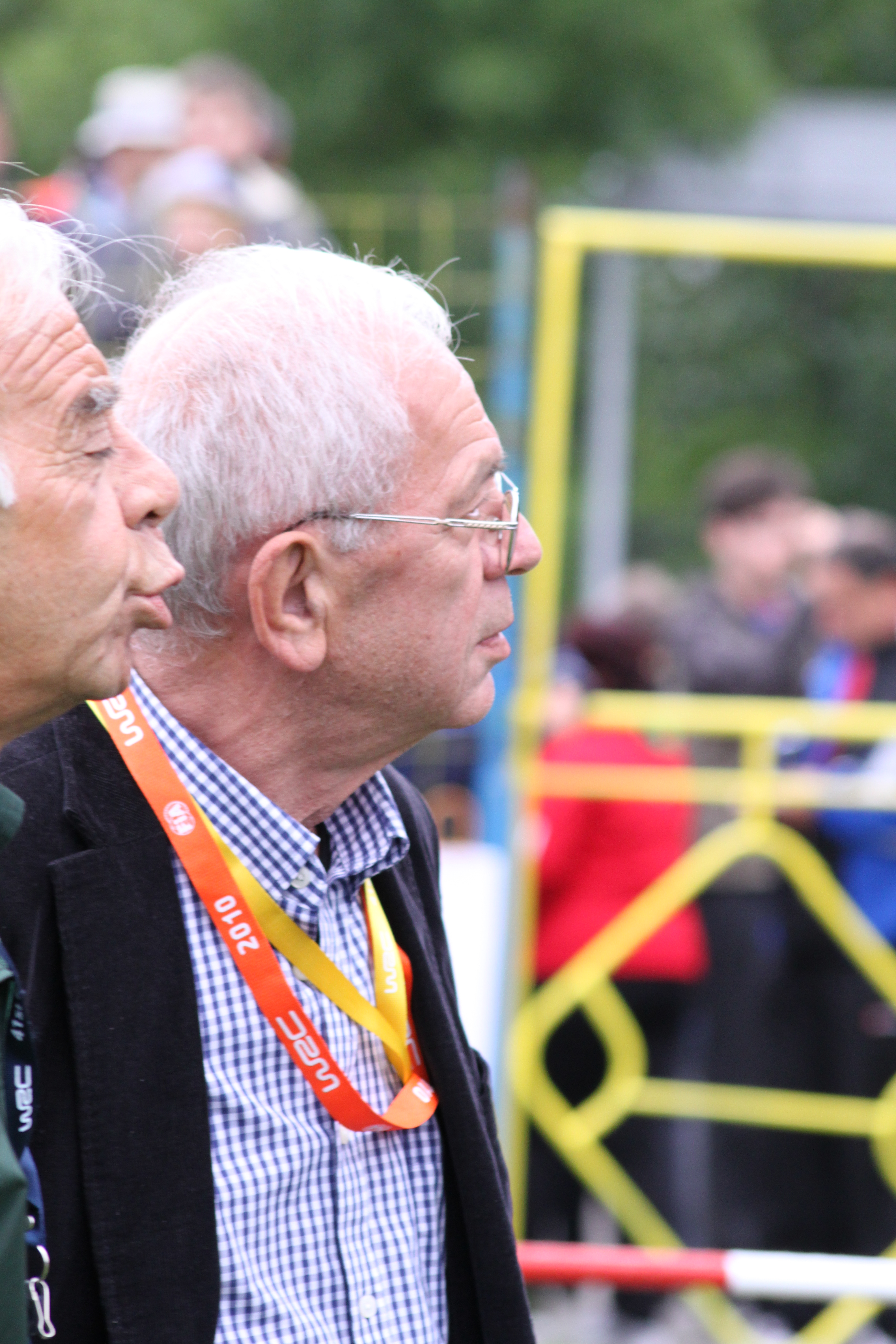 Georgi Yanakiev - Bulgarian Auto Union dnd BFAS chairman